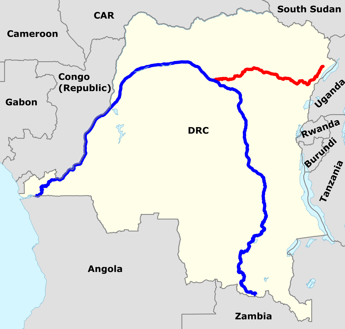 The Aruwimi in the DRC